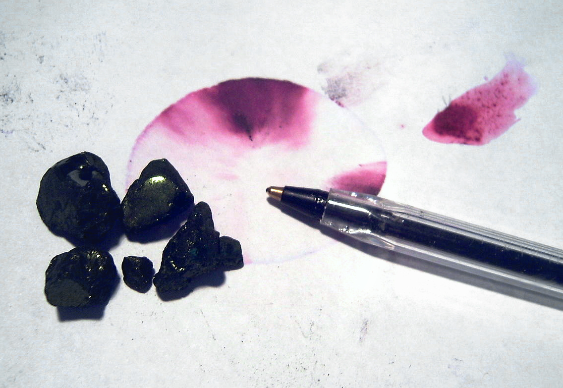 Photograph of Basic Fuchsine pieces, C.I. 42500, metallic green lumps, lying on a sheet of A4 office paper with ballpoint pen for relative reference. Known formula, (H2NC6H4)3CCl. Two stains from streaks of dyestuff remaining on paper by wetting with one drop of ethanol, (centre) and one drop of water, (right).